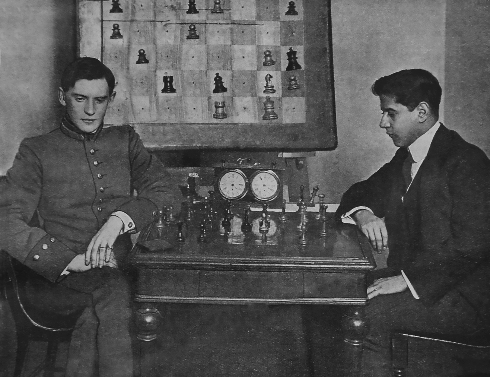 José Raúl Capablanca vs Alexander Alekhine. The St. Petersburg 1914 chess tournament.